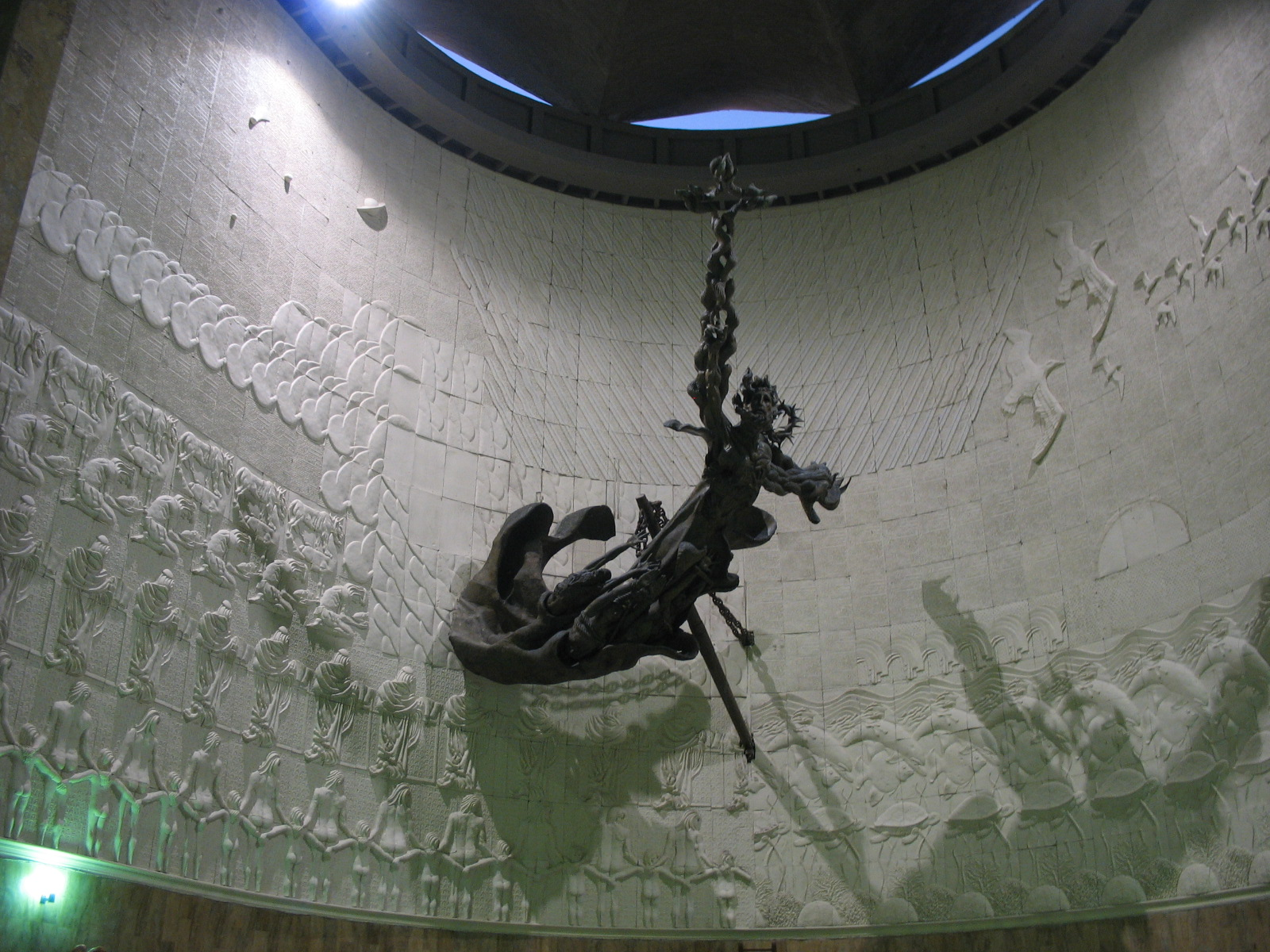 Catedral Barranquilla Cristo Libertador.jpg